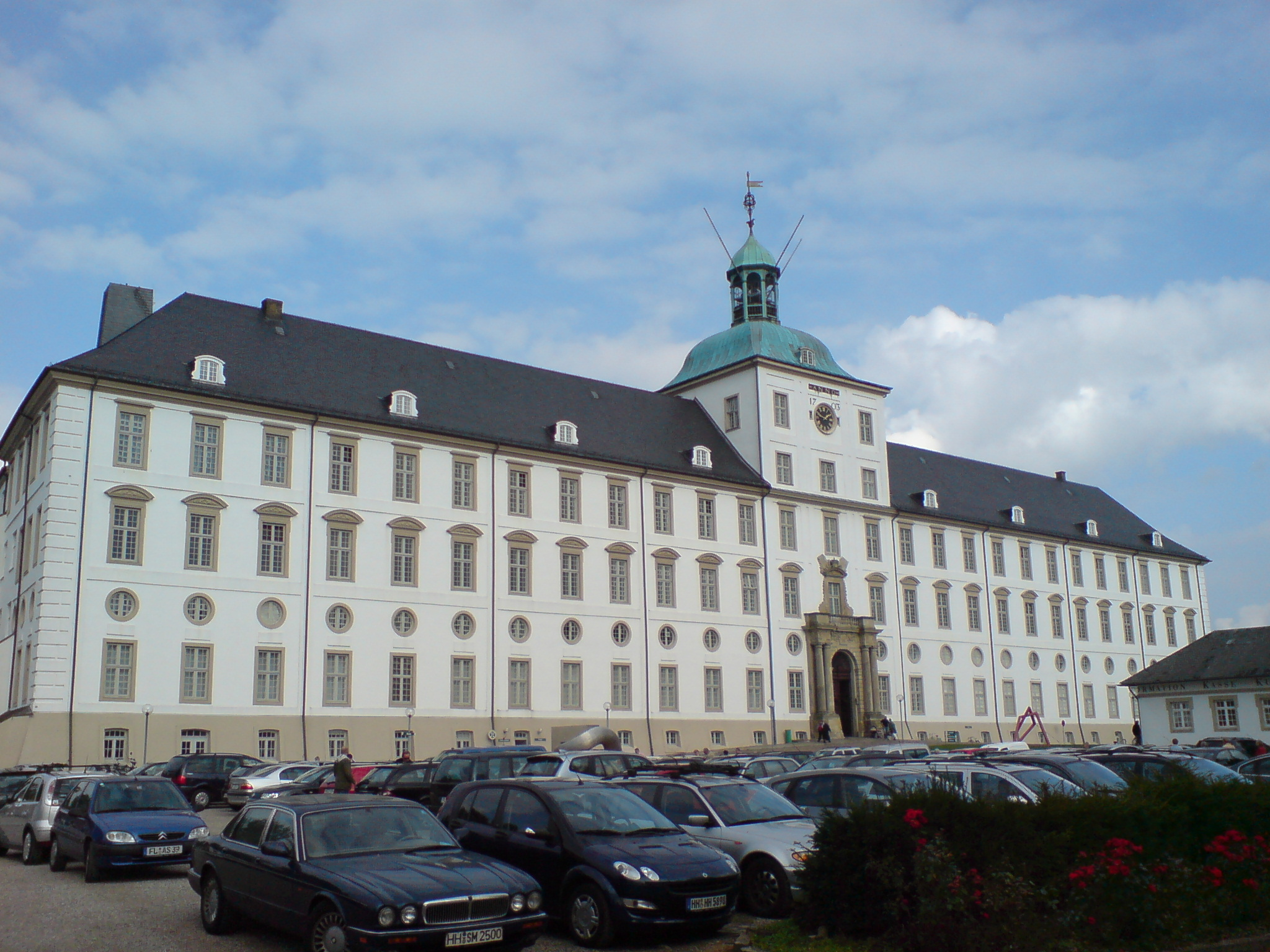 Gottorp Slot in Schleswig, in the German state of Schleswig-Holstein image by me user:Nico-dk/Nils Jepsen